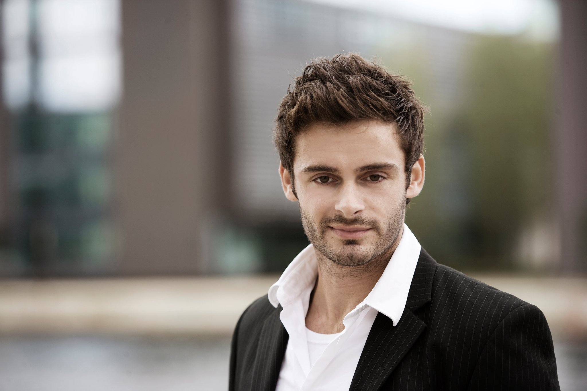 Ilir Hasani - direktør Team JiYo